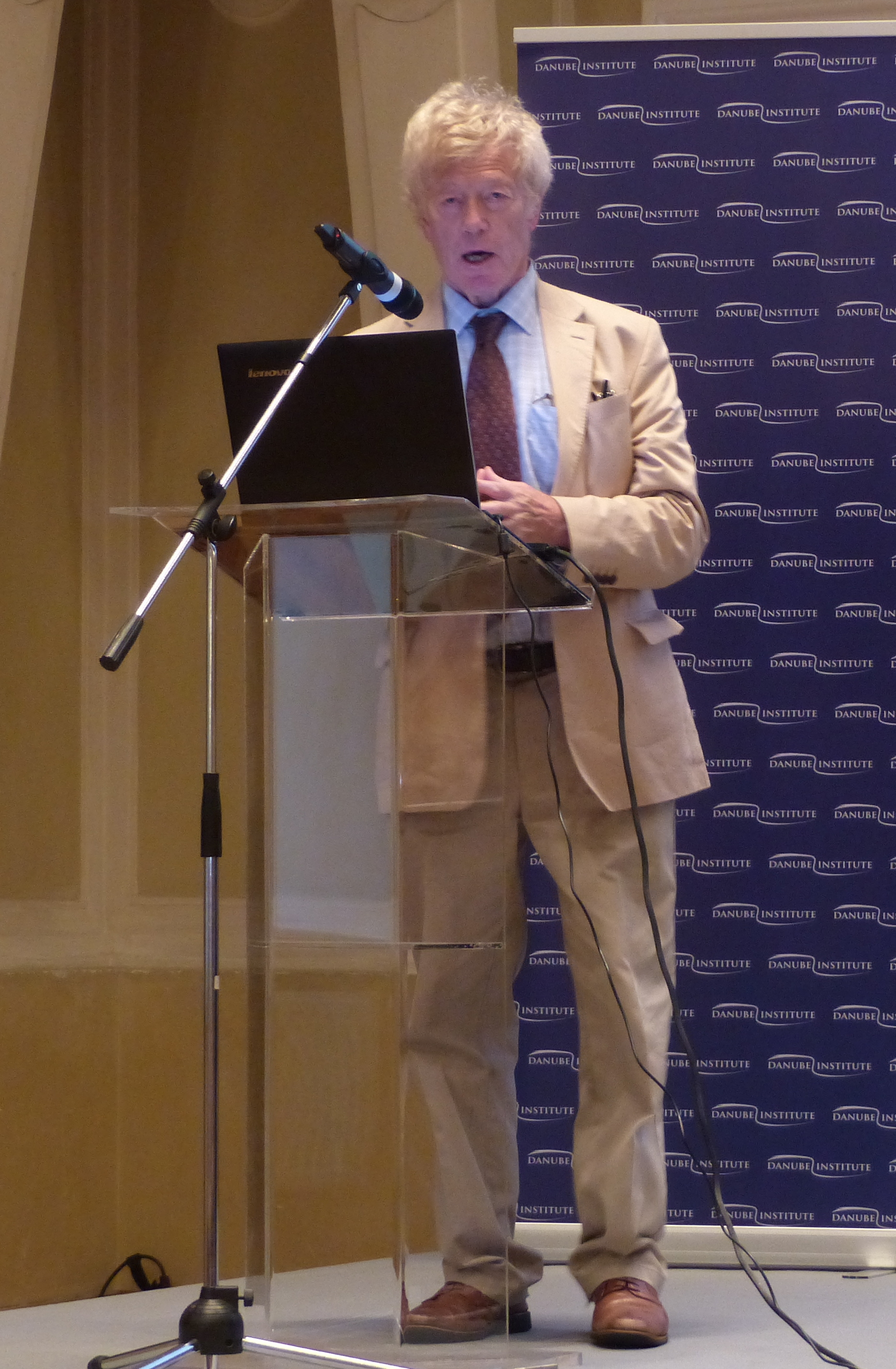 Roger Scruton lecturing in Budapest on "Europe and the Conservative Cause", Centre for Humanities and Social Sciences